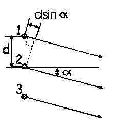 sketch distance in phased array system